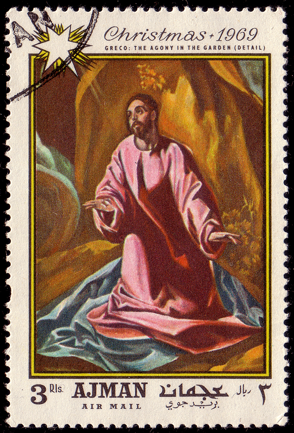 Airmail postage stamp of Ajman (UAE), Christmas, El Greco, The Agony In The Garden (detail) 3 riyals, 1969